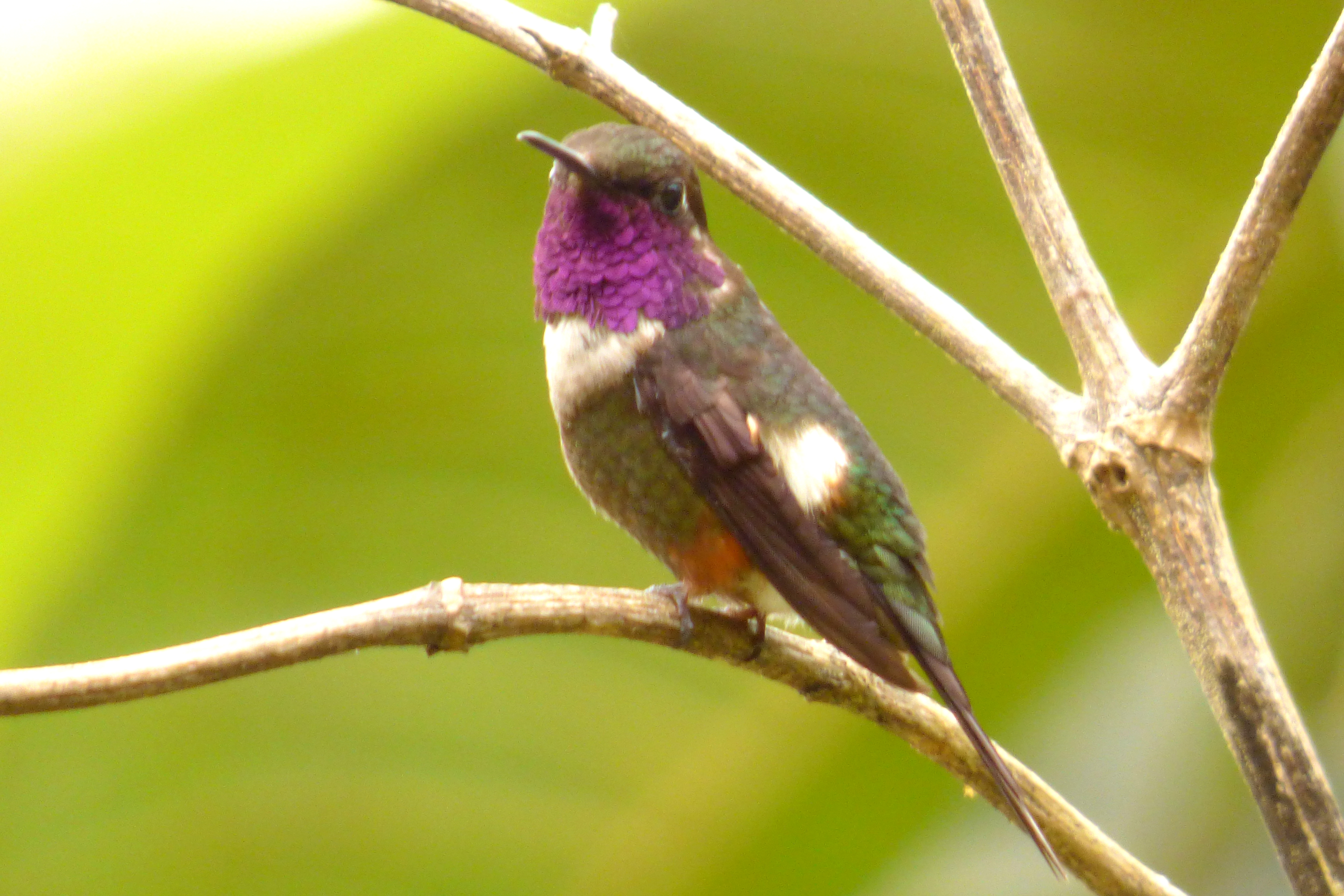 Calliphlox mitchelii (Zumbador pechiblanco) - Macho